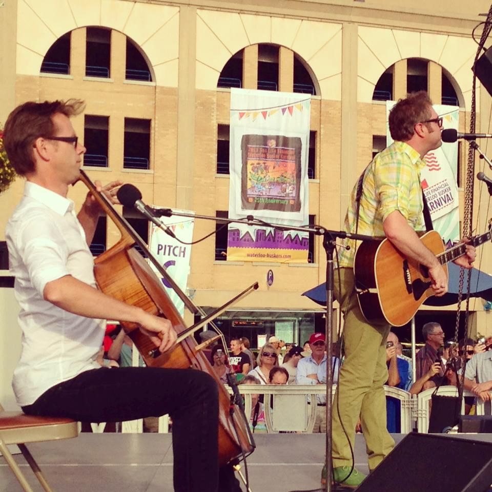 Steven Page, formerly of the Barenaked Ladies performing accompanied by Kevin Fox at the Opening Ceremonies of the 25th Anniversary of the carnival on August 22, 2013. Barenaked Ladies performed at the 2nd Waterloo Busker Carnival in 1990, where they first met their now-drummer, Tyler Stewart